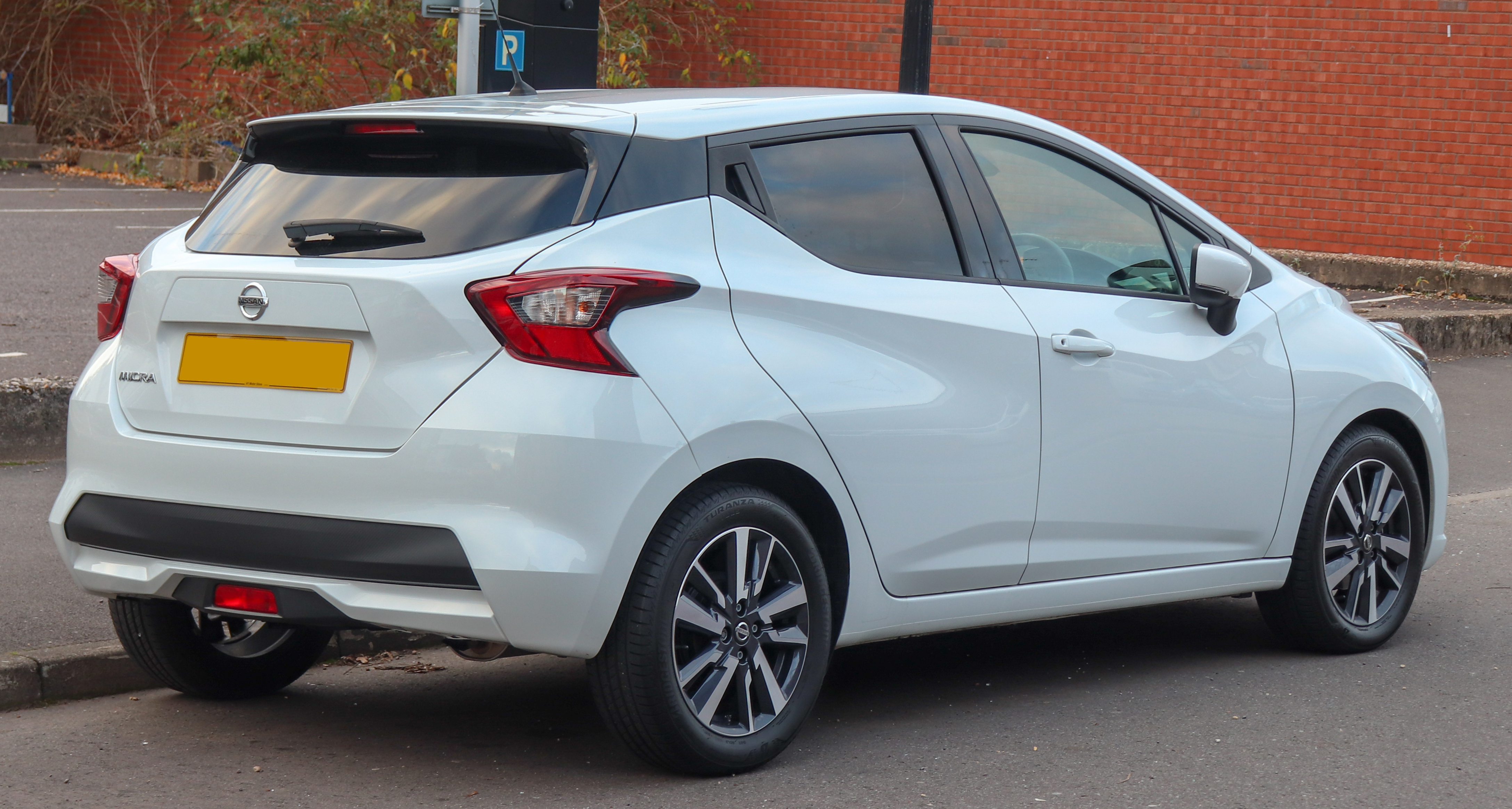 2017 Nissan Micra N-Connecta IG-T 900cc Rear Taken in Leamington Spa